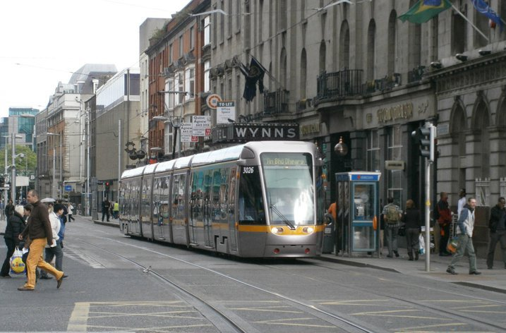 An Luas tram (3026) stopped at Abbey Street on the Red Line. The trams was waiting to cross the road. The Wynns Hotel Dublin can be seen be-hide the tram.